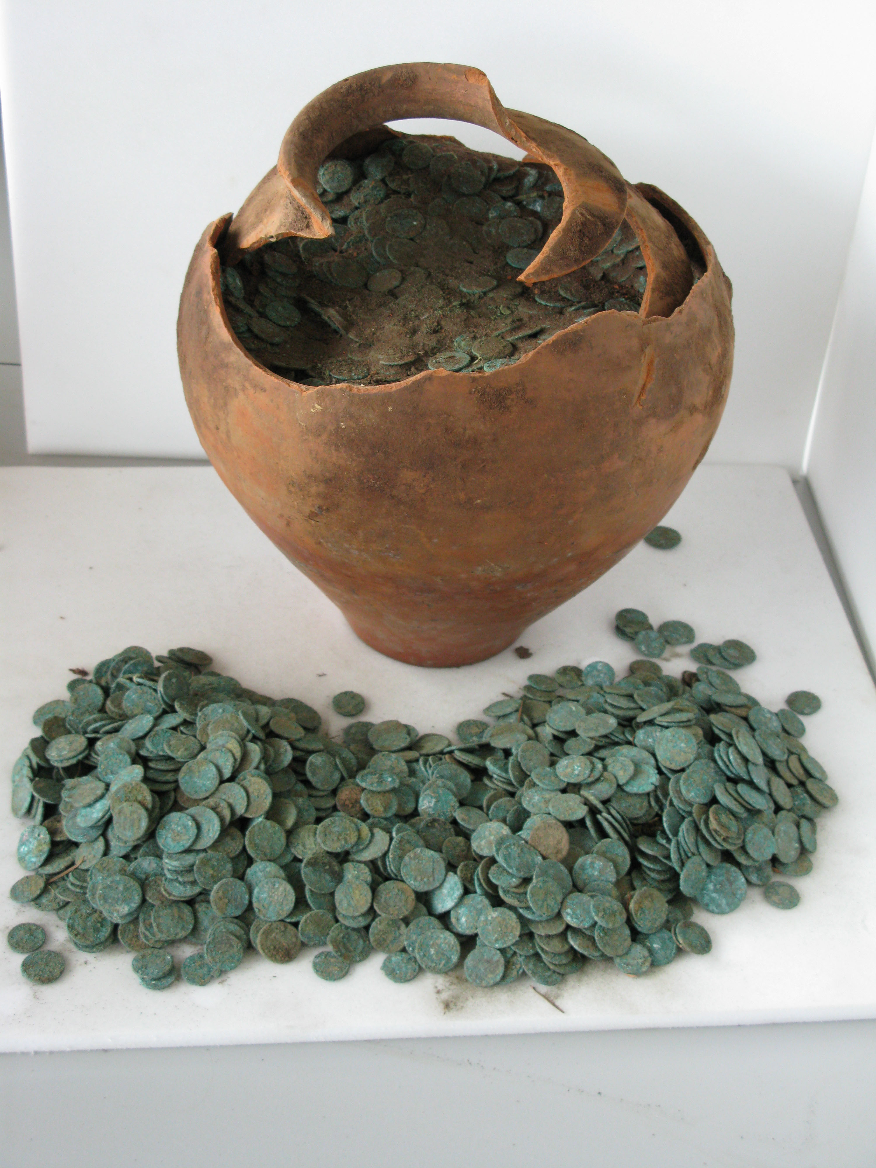 Another view of the vessel and the hoard This was added from the site called [User:Victuallers/Victuallersloadtemplate Flickr] under the name portableantiquities. See website of that name for for details